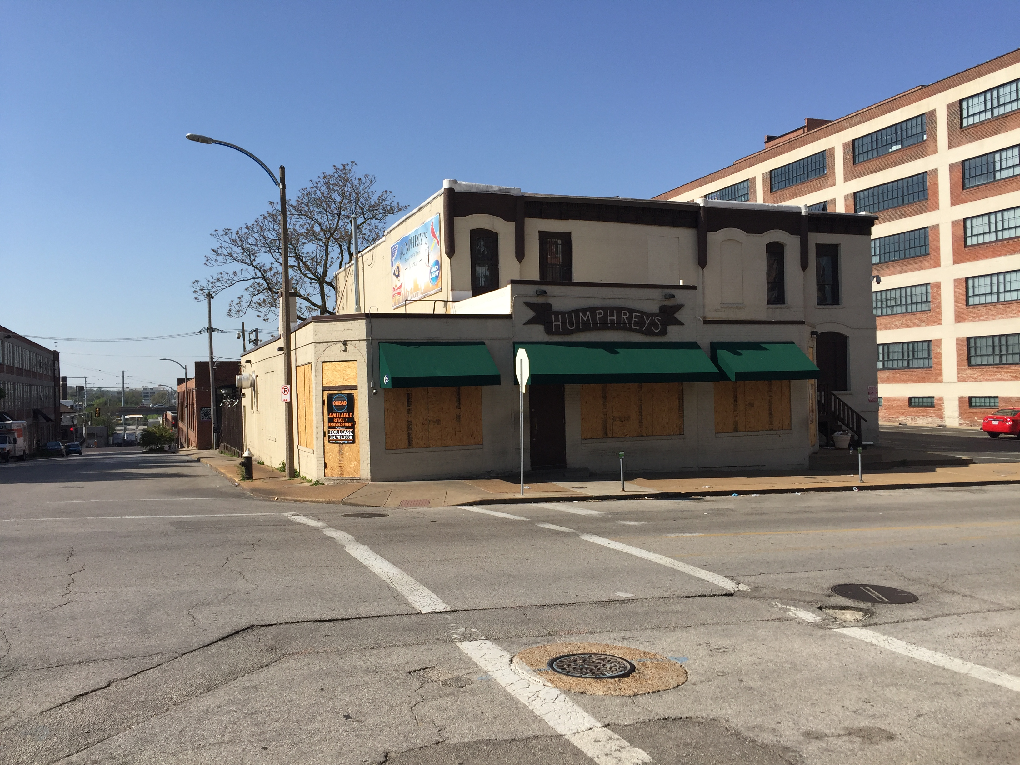 Humphrey's Restaurant & Tavern, Saint Louis, Missouri. Photo taken in 2017 after it closed due to plans for demolition and rebuilding a new Humphrey's